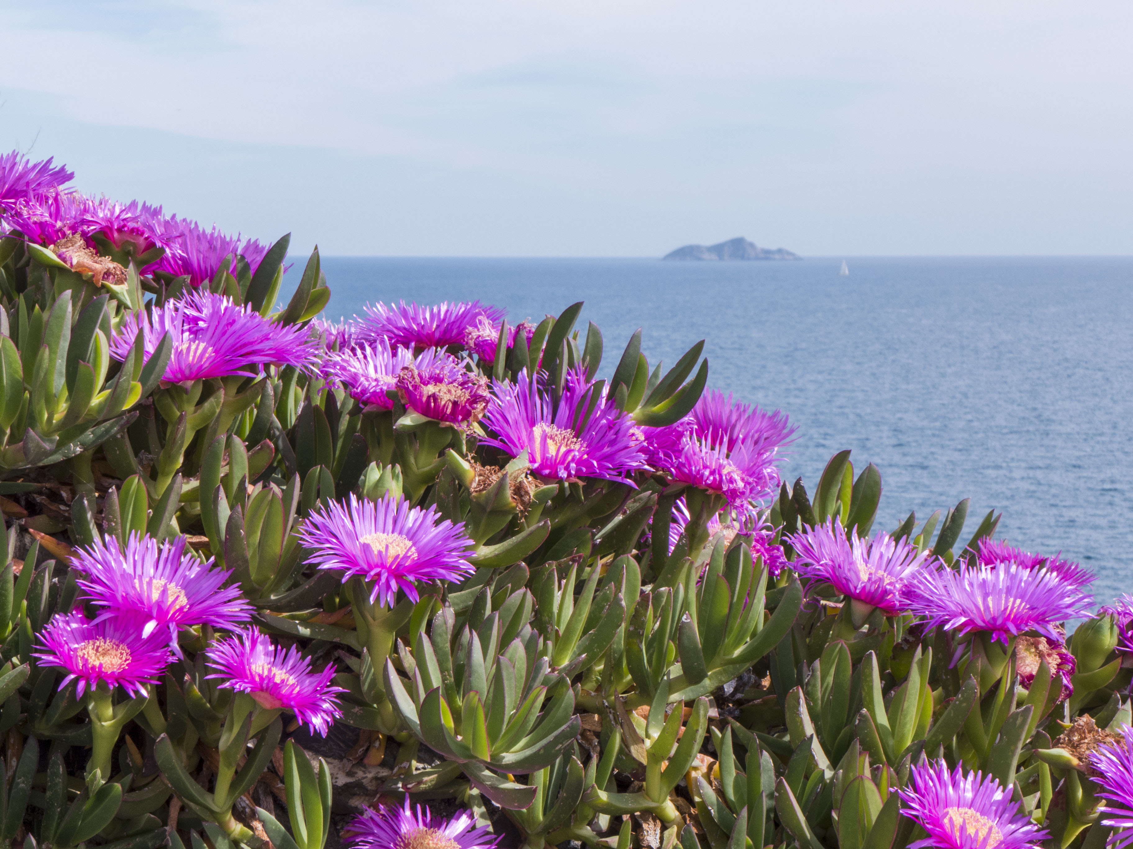 Carpobrotus plant and flowers in Piombino (Tuscany, Italy). In the background is visible the "Cerboli" islet.